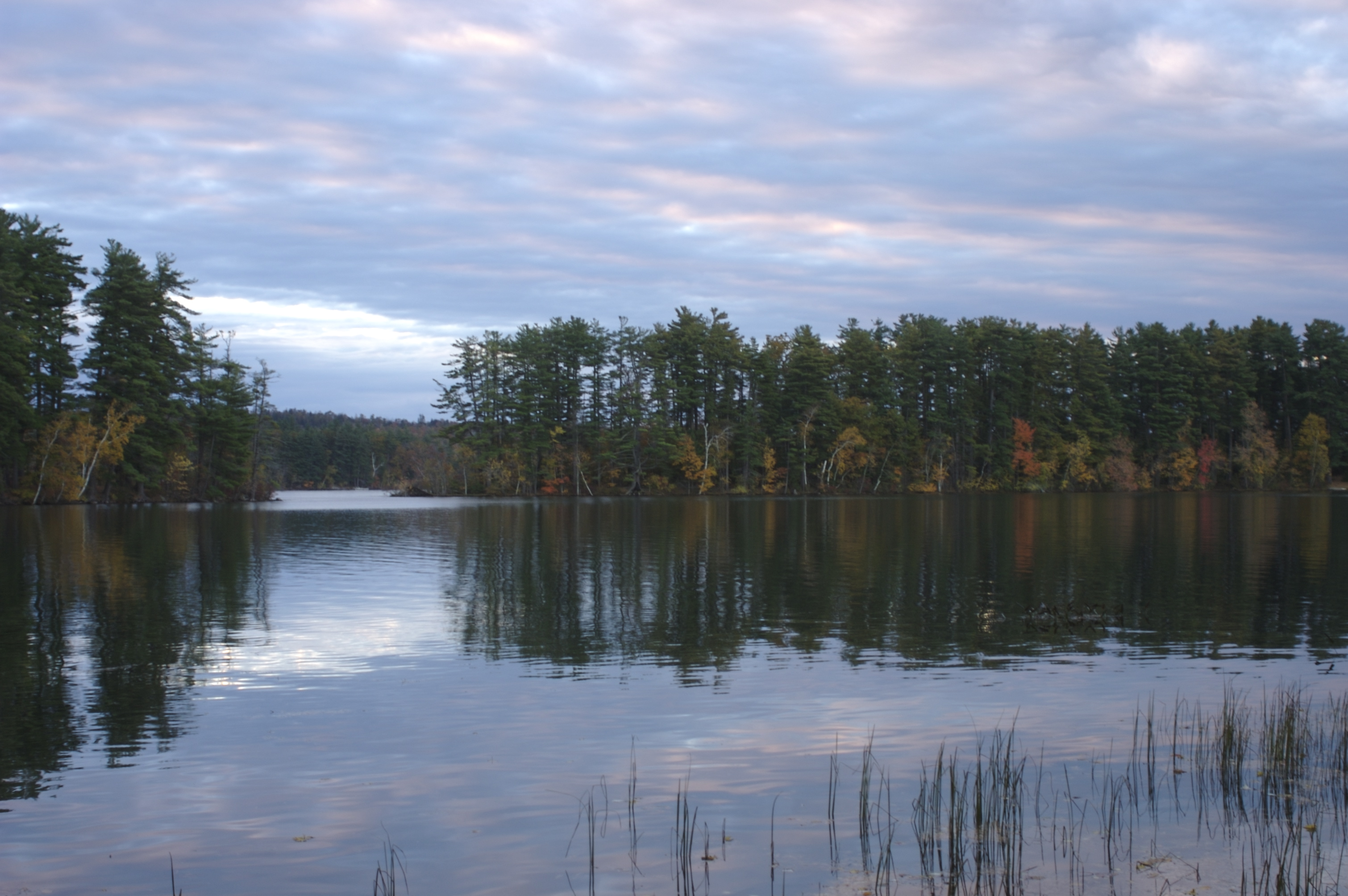 A view from of Annabessacook lake, one of several lake in Winthrop, Maine. Taken in the fall of 2006.